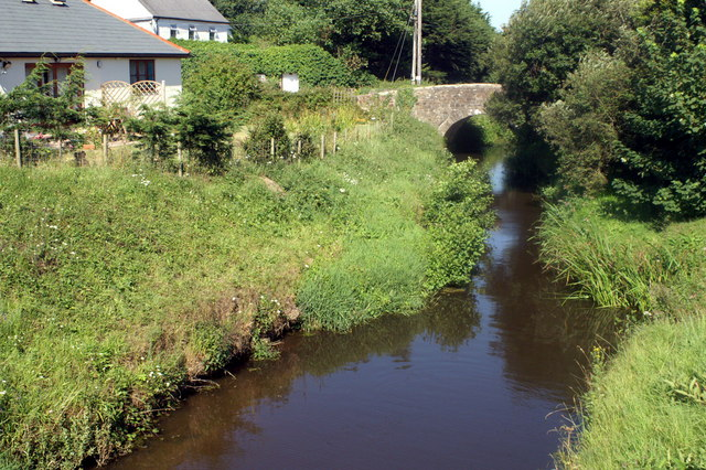 River Neet, Helebridge View from the modern A39 bridge to the old bridge